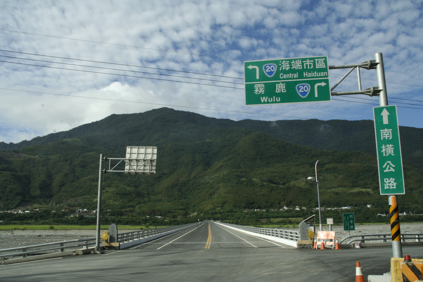 The Chulai Bridge on the Provincial Highway 20A, in Taitung County, Taiwan.View toward the south, with the Sinwulyu River and Provincial Highway 20 in the background.